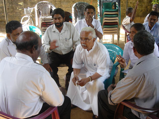 A. T. Ariyaratne, center